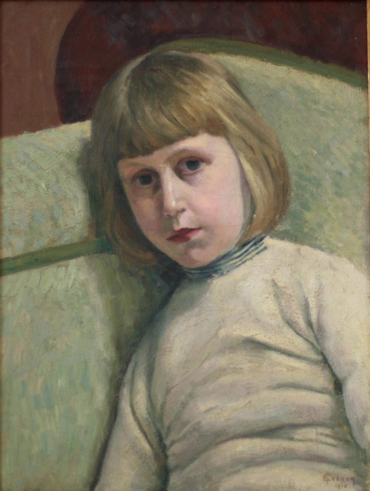 Portrait of Georges, son of Georges Emile Lebacq